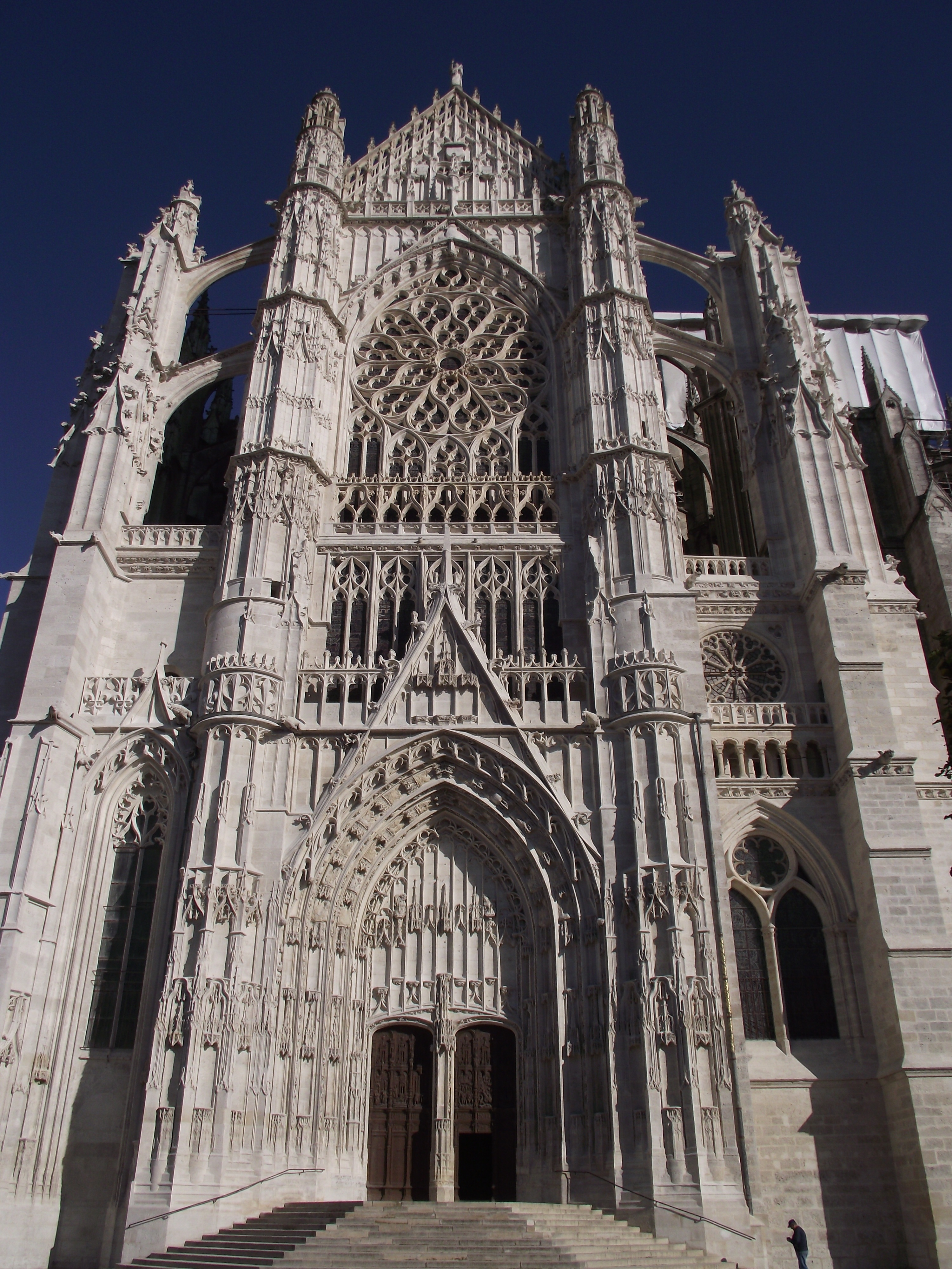 Beauvais, Saint Peter's Cathedral, South Front, XVI Century